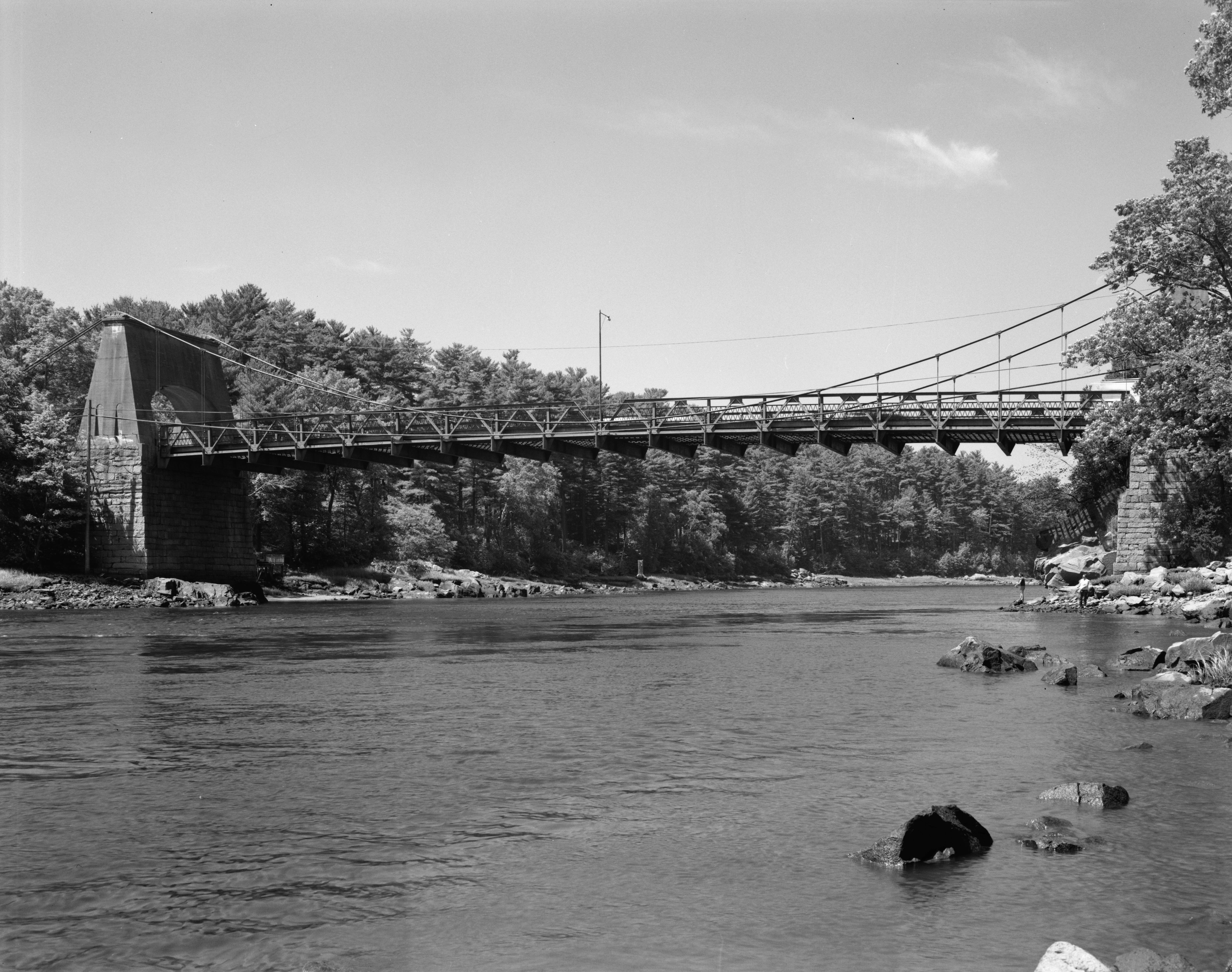 Essex-Merrimac Bridge, Spanning Merrimack River between Newburyport & Dee, Amesbury, Essex County, Massachusetts